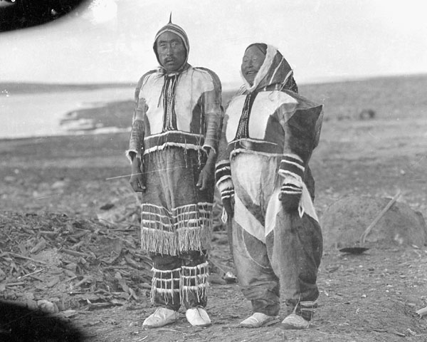 Ikpukhuak and his shaman wife Higalik (Ice House) who "adopted" Diamond Jenness. Picture was taken by Hubert Wilkins between 1913-1916.